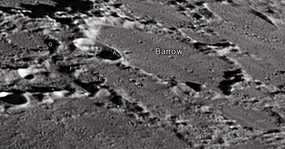 Barrow lunar crater as seen from Earth with satellite craters labeled